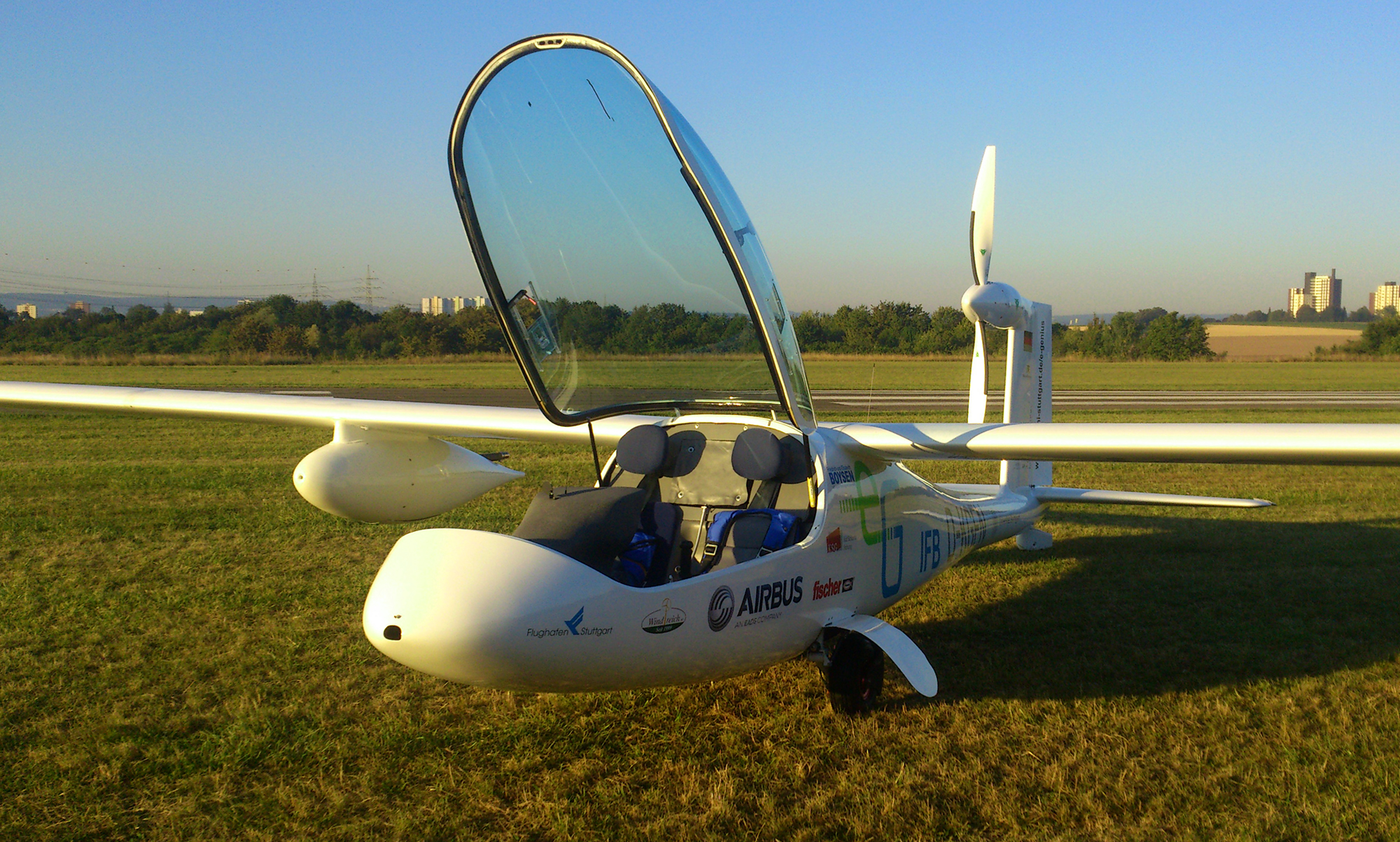 e-Genius at the Pattonville Airfield in 2016. On the right wing (left side of the photo), the external "plug-and-fly" range extender can be seen.